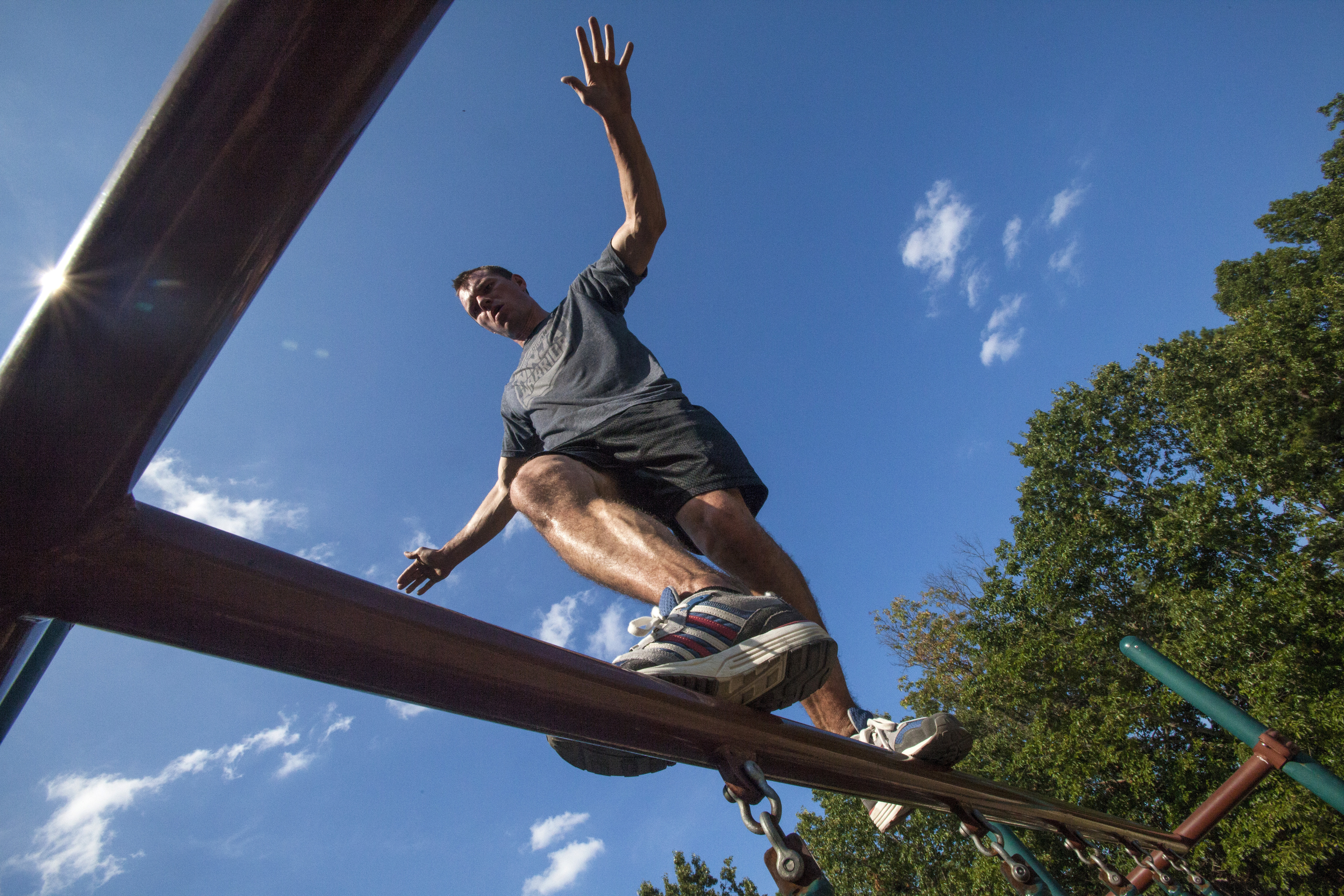 Tech. Sgt. Justin B. Gielski maintains his balance while training to compete on the TV show “American Ninja Warrior” at a playground near his home in Medford, N.J., Aug. 21, 2015. Gielski placed fifth in the all-military city final on the TV show and advanced to the finals in Las Vegas. Gielski is a loadmaster with the 150th Special Operations Squadron, 108th Wing, New Jersey Air National Guard, located at Joint Base McGuire-Dix-Lakehurst, N.J. (U.S. Air National Guard photo by Master Sgt. Mark C. Olsen/Released)